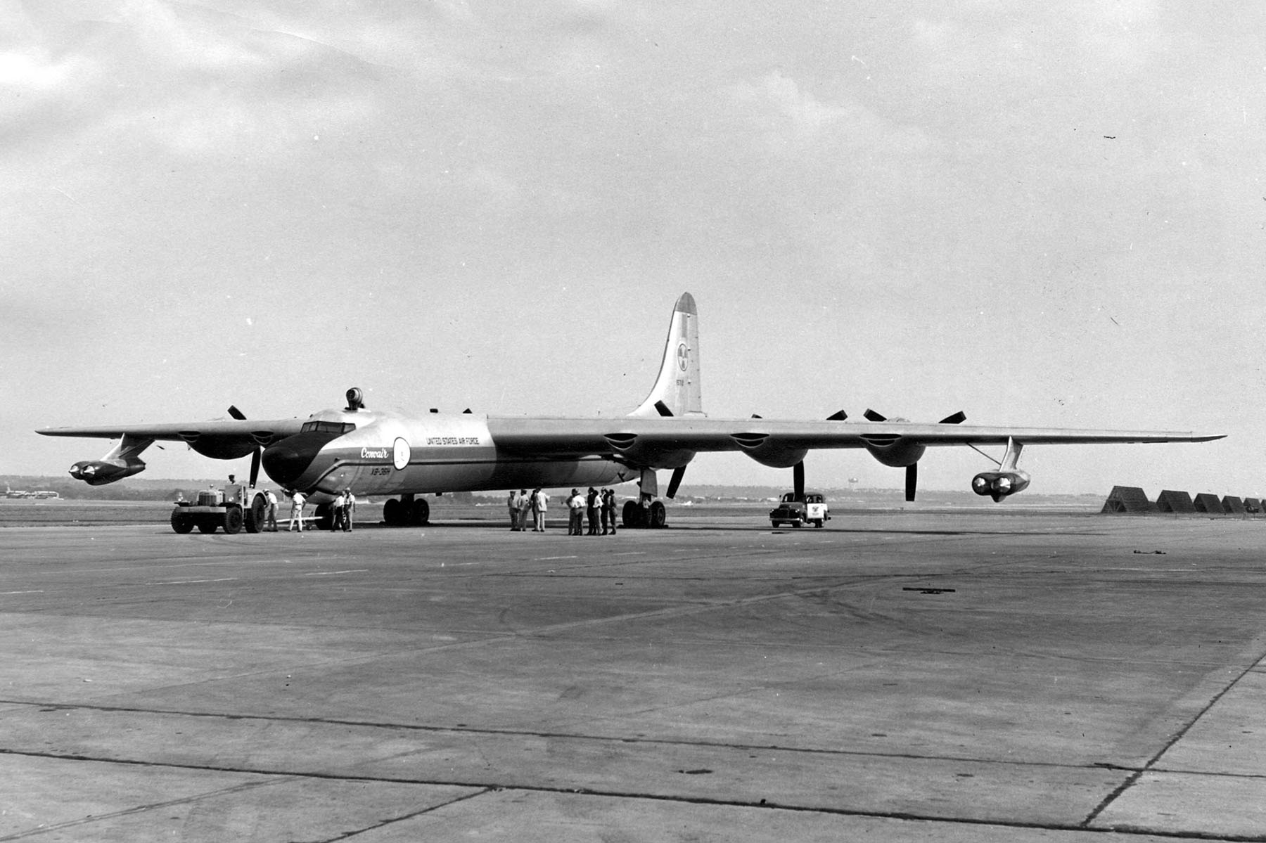 NB-36H on ramp.